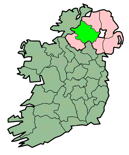 Location of County Tyrone (Condae Tír Eoghan) (light green) within Northern Ireland (pink) in the island of Ireland (green)